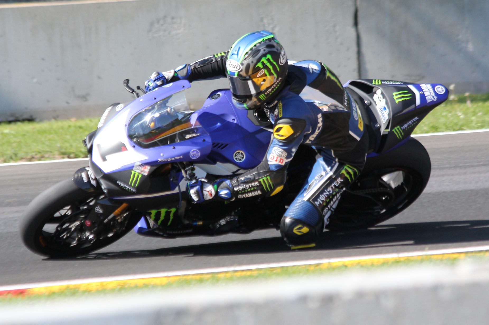 MotoAmerica AMA Superbike rider Josh Hayes leaning left at Turn 6 at Road America.